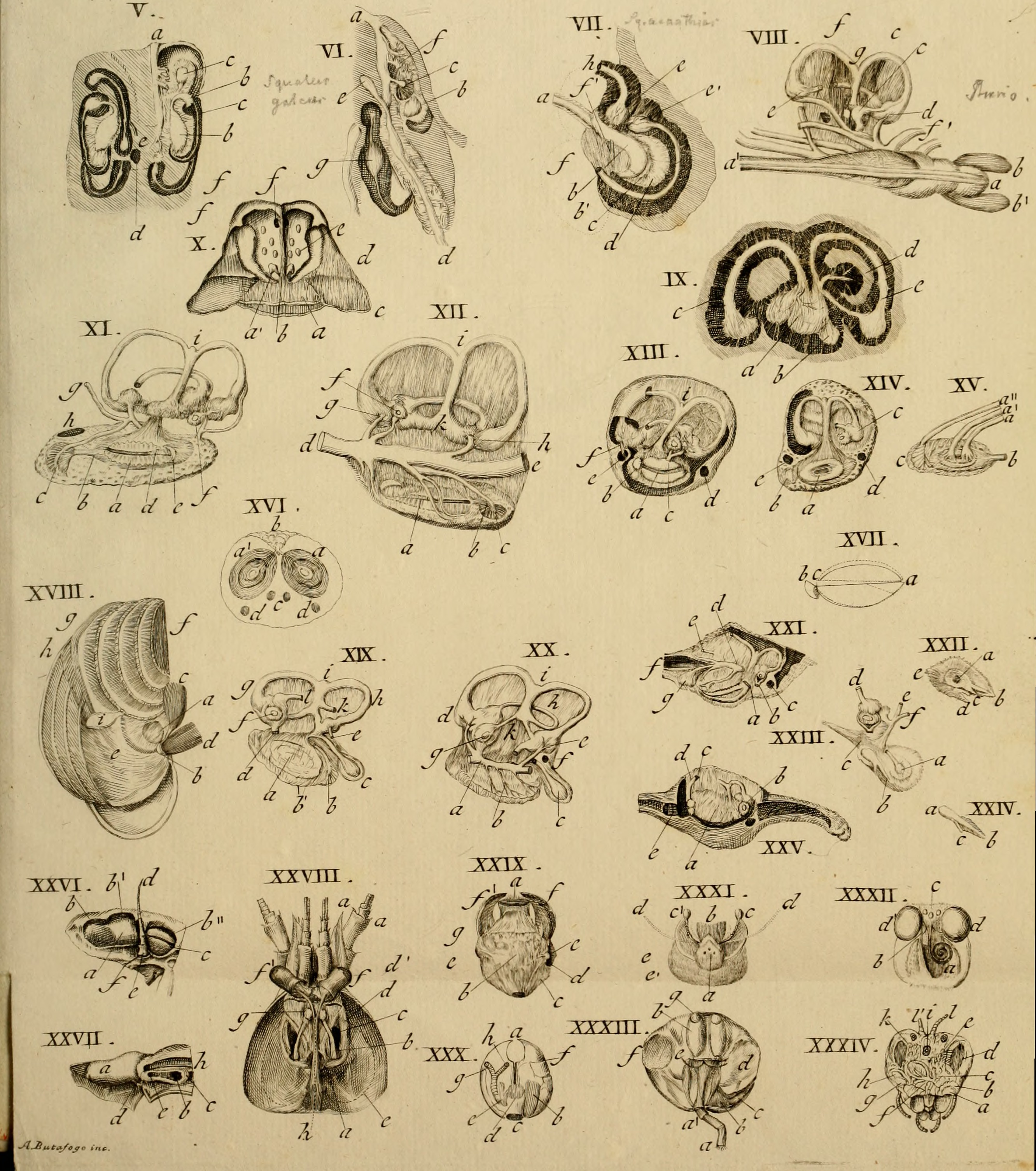 Title: Andreae Comparetti ... Observationes anatomicae de aure interna comparata Year: 1789 (1780s) Authors: Comparetti, Andrea, 1746-1801 Subjects: Ear, Inner Labyrinth (Ear) Anatomy, Comparative Publisher: Patavii : Apud S. Bartholomaeum ex typographia Jo. Antonii Conzatti Text Appearing Before Image: T.m. Text Appearing After Image: I^ml»